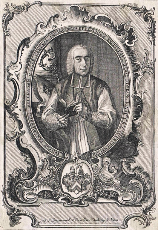 Franz Ignaz Albert von Werdenstein (1697–1766), Auxiliary bishop of Freising